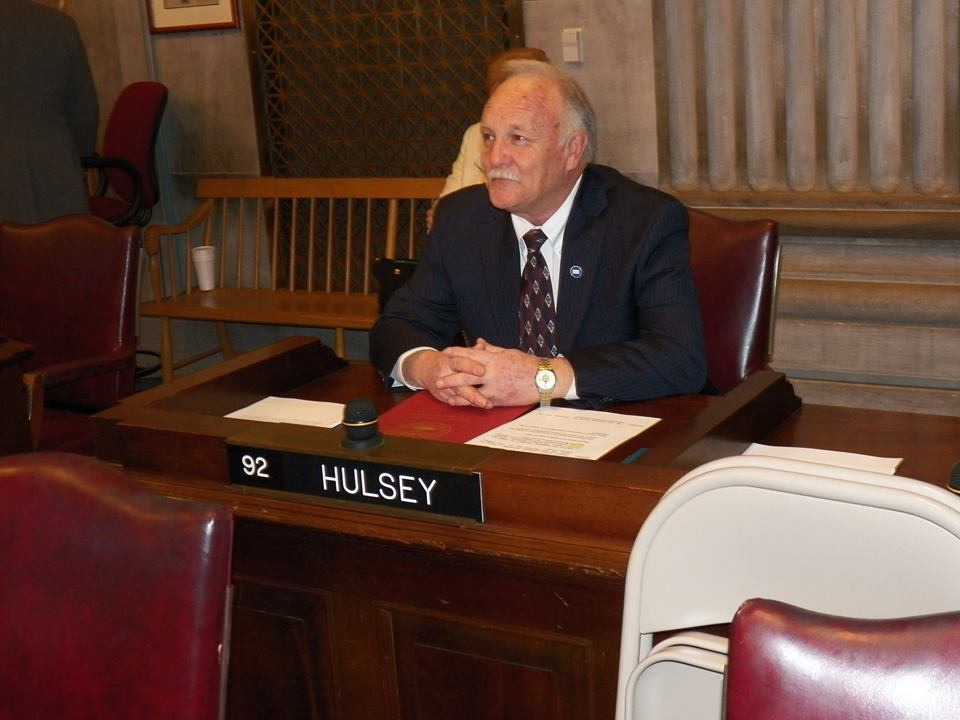 Tennessee State Representative Bud Hulsey at the Tennessee State Capitol Building